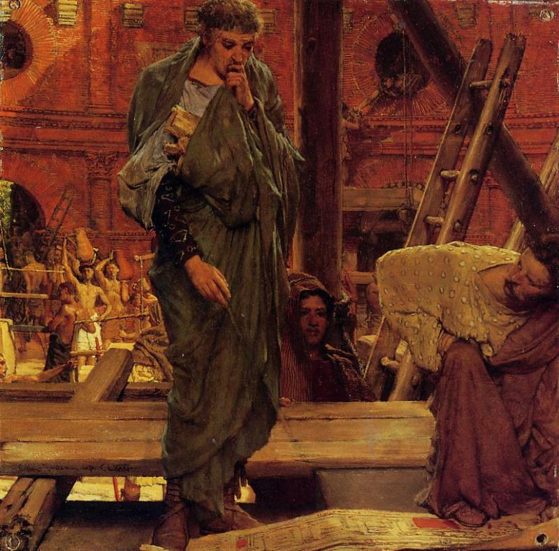 Architecture in Ancient Rome Sir Lawrence Alma-Tadema - 1877 Private collection